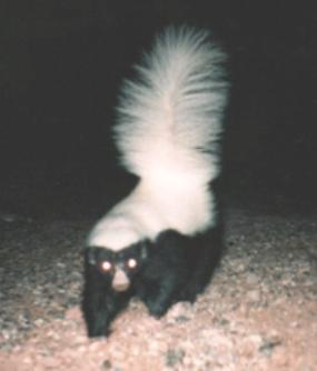 Common Hog-nosed Skunk (Conepatus mesoleucus)